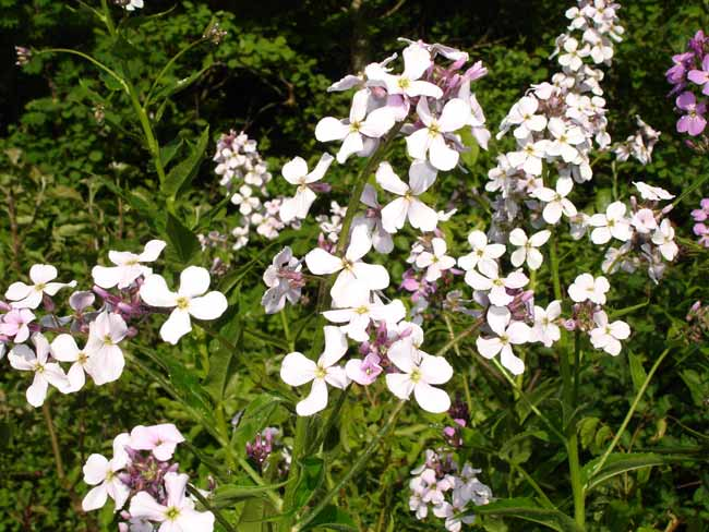 Hesperis matrionalis